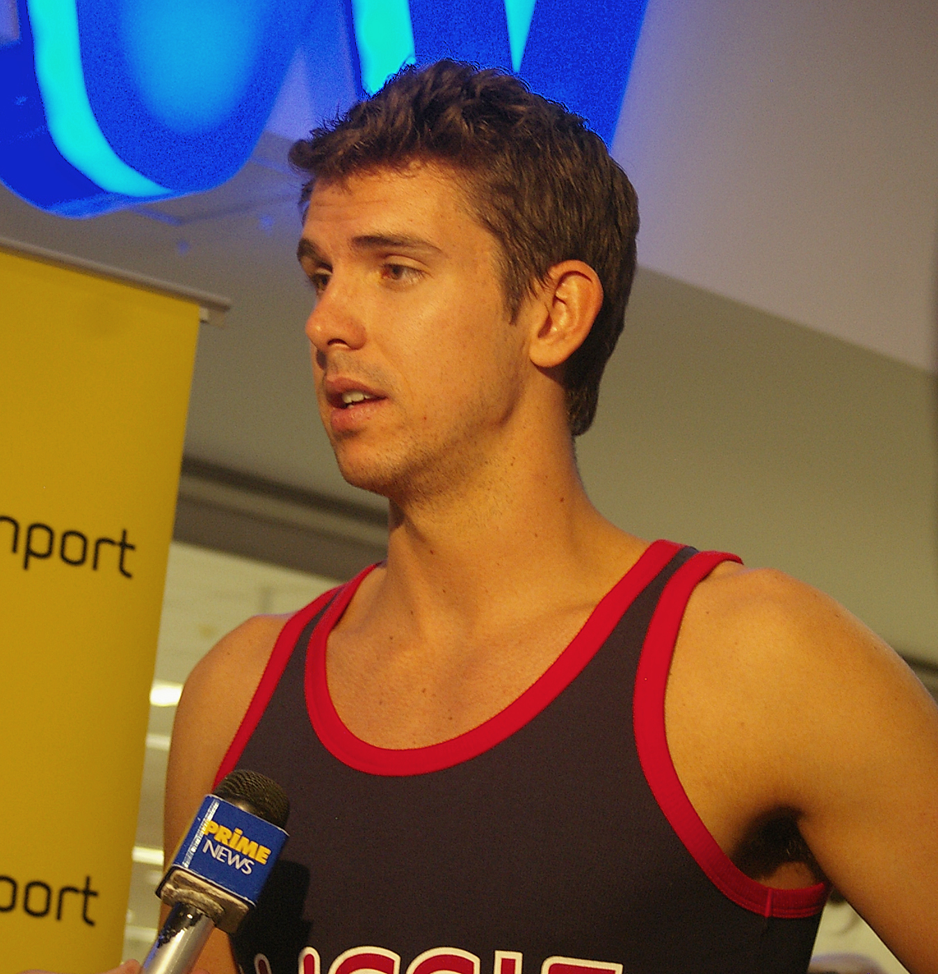 Eamon Sullivan being interviewed by Prime News at the Wagga Wagga Marketplace for the launch of the Davenport range at Big W.